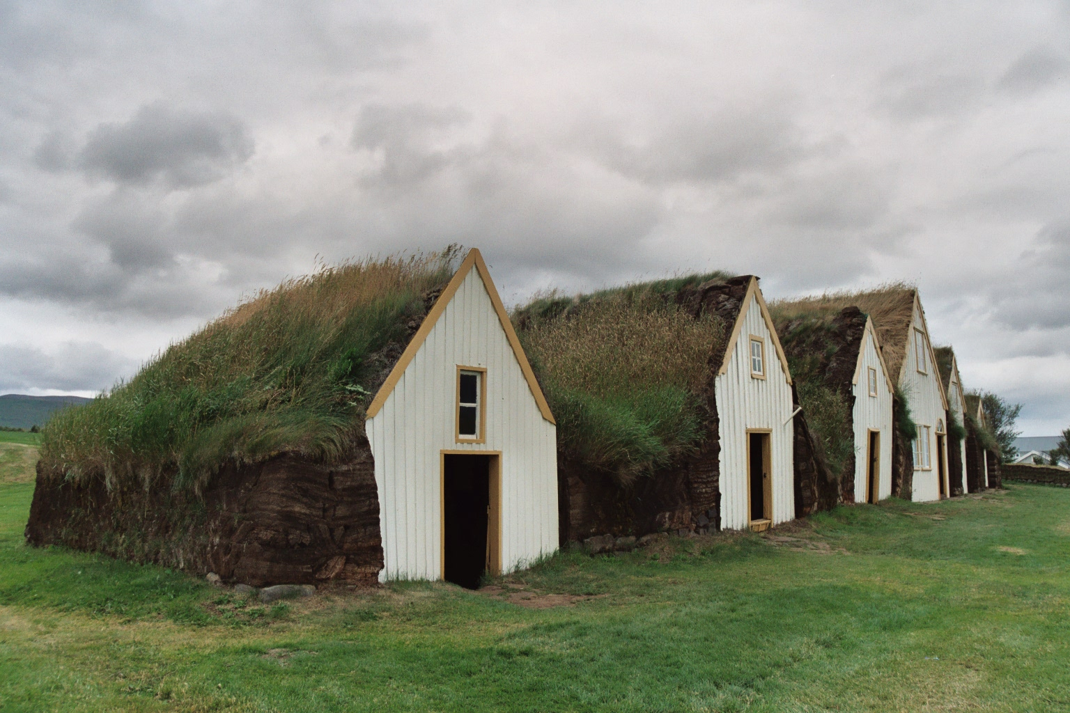 The Glaumbær peat farmhouse Author: Johann Dréo (User:Nojhan) Date: 2004, july Notes: Front view of the farmhouse, near the Glaumbær village, in Iceland.